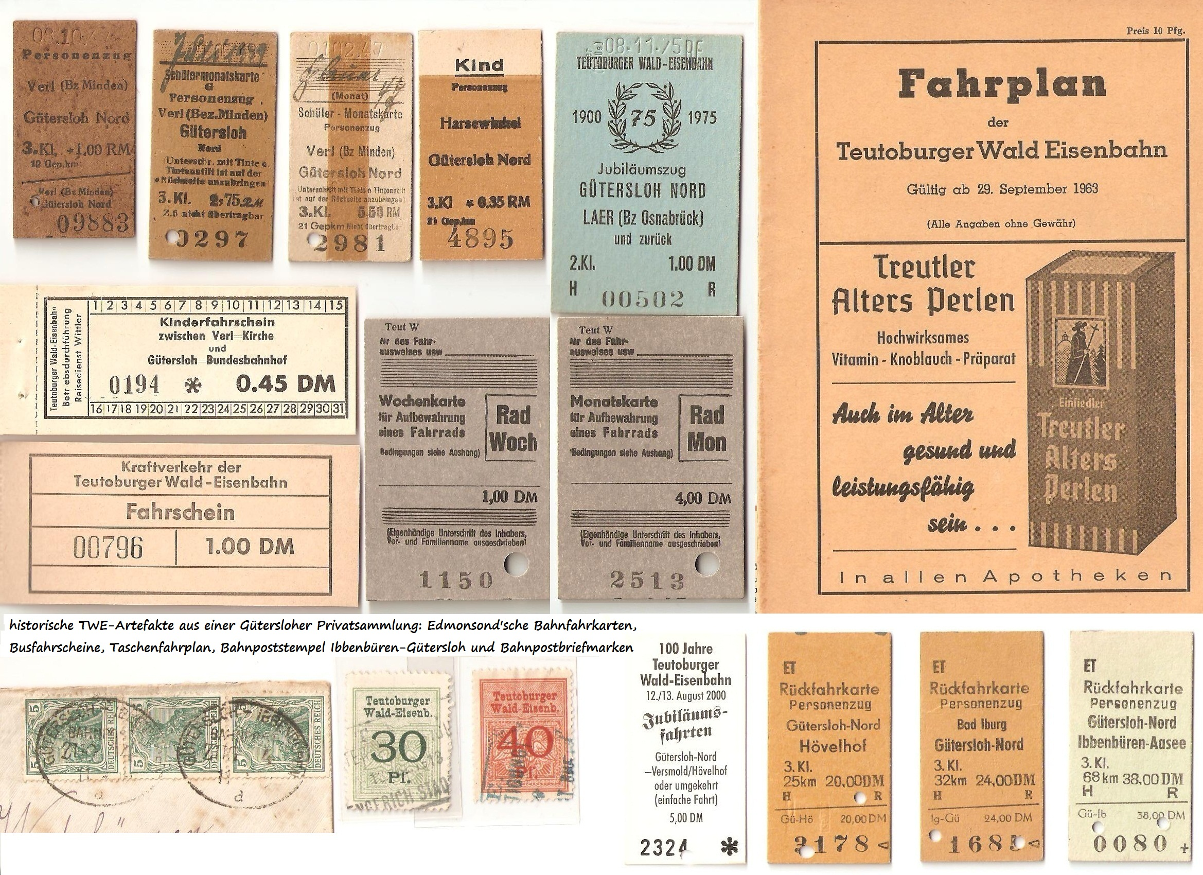 historic artefacts from the passenger traffic era of German local Railway "Teutoburgean Forest Railway" (TWE): Tickets for passenger train and bus, folded time table, railway postal service stamps